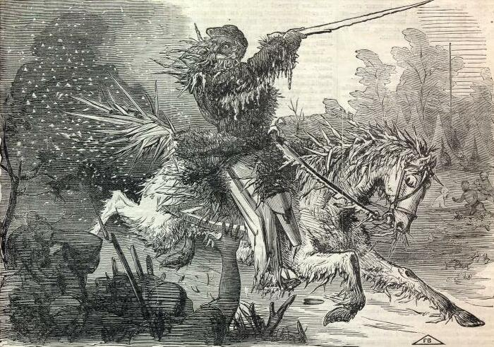 A 19th century image of Jack Frost as a Union General during the American Civil War. via Harper's Weekly, 5 October 1861. CAPTION: OUR NEW MAJOR-GENERAL. "Our faithful old Ally of the North, GENERAL JACK FROST, shall come and clear away the Malaria of the South, and we shall march Southward from this place, and there shall be no footsteps backward until this Rebellion is crushed out of this Union."-Speech of Major-General BUTLER.